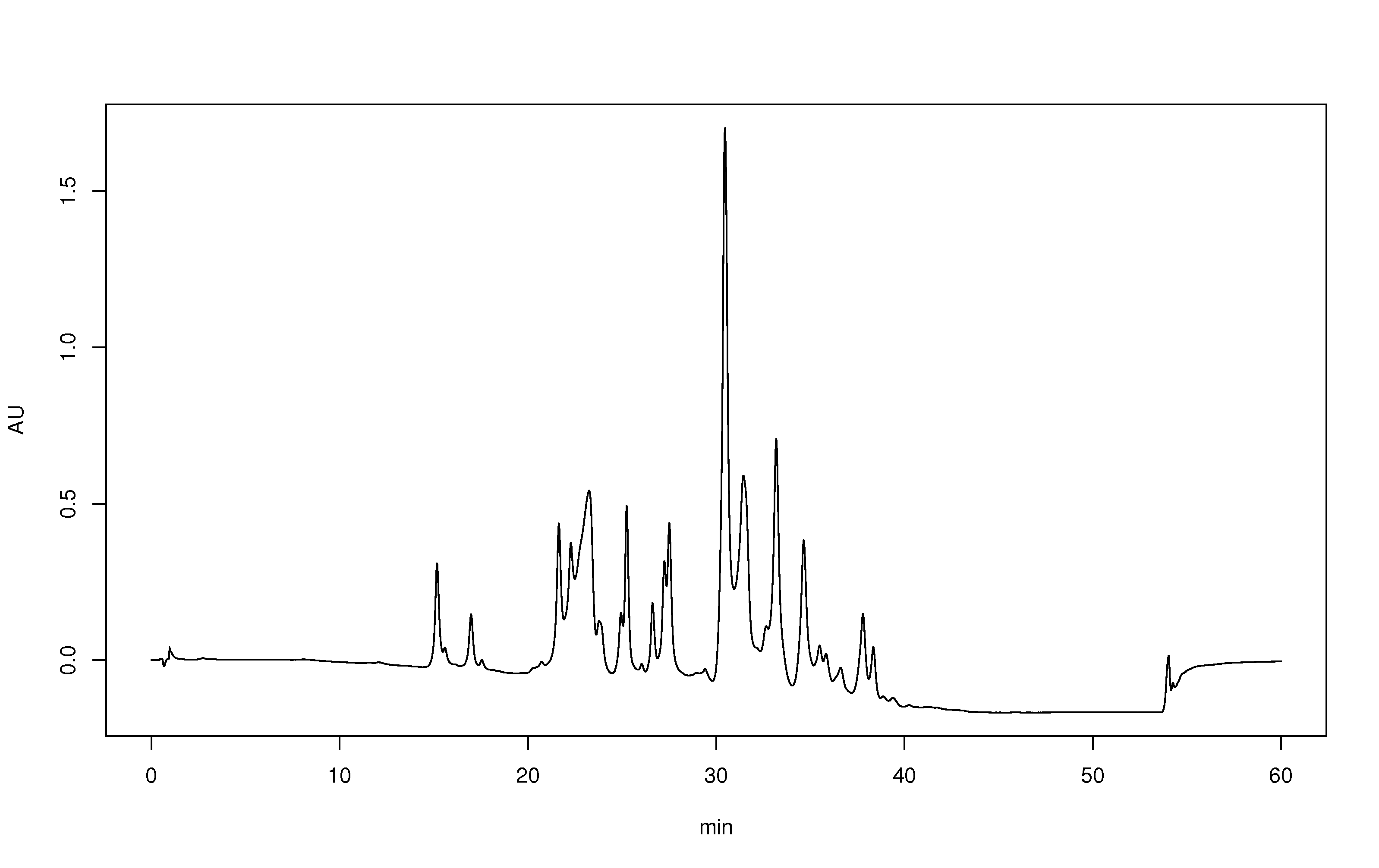 HPLC chromatogram of J'Adore perfume water, as example of complex mixture analysis. Separation on C18 column using almost linear 5 - 100% acetonitrile-water gradient.